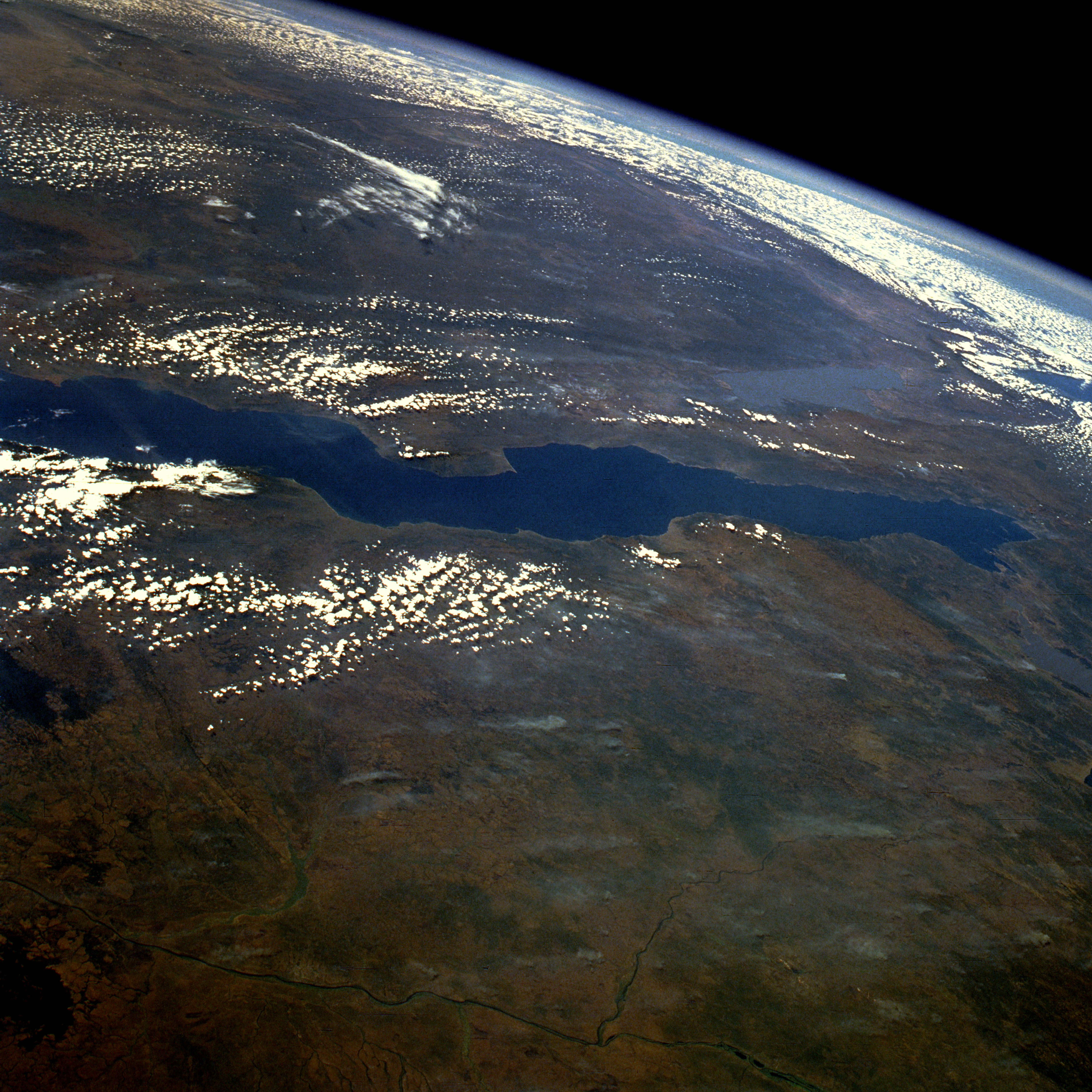 This east-looking, high-oblique photograph features Lake Tanganyika—the second deepest freshwater lake in the world with a maximum depth of 4710 feet (1436 meters) and the longest lake in the world, stretching 410 miles (660 kilometers) north to south. Its width varies between 10 and 45 miles (16 and 72 kilometers). The lake, bordered on either side by steep slopes, fills a long narrow trough in the western arm of Africa's Great Rift Valley and supports a thriving fishing industry. The lake basin, a landform in which a block of the Earth's crust dropped down between blocks that rise on either side, began to form nearly 25 million years ago as part of the Great Rift Valley. On the lake's west shore is Tanganyika's sole outlet, the Lukuga River, which is a tributary of the Zaire River (northwest portion of photograph). The Zaire River flows westward and empties into the Atlantic Ocean. Other features in the photograph are shallow, silt-laden Lake Rukwa to the east of the lake and the extreme northern tip of Lake Nyasa near the southeast horizon.